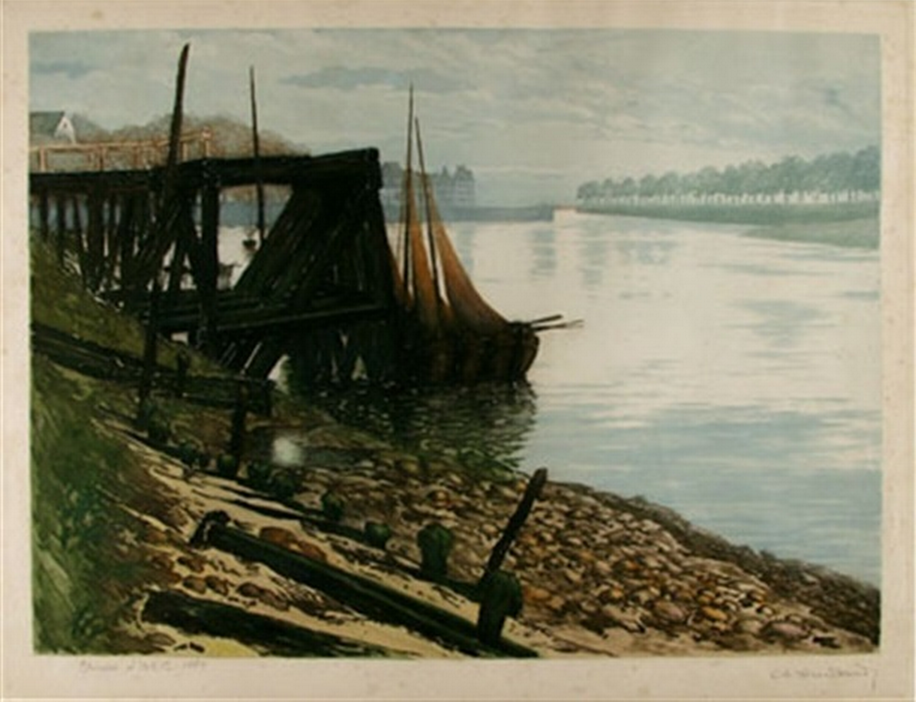 Au bord de la rivière, etching & aquatint, dim. : 41.3 x 57.1 cm.